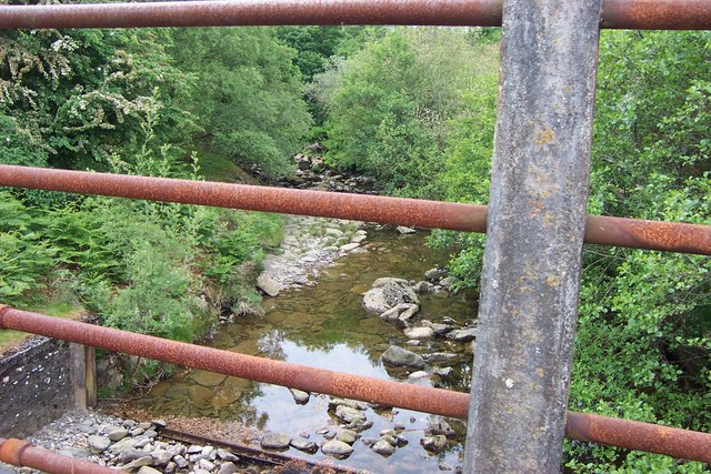 Afon Porth-llwyd from Pont Newydd. Afon Porth-llwyd river from the footbridge known as Pont Newydd at SH 75872 67150 looking northeast.